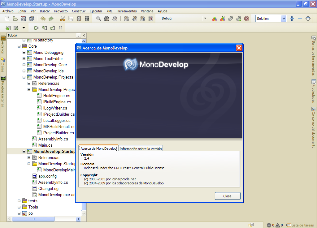 MonoDevelop 2.4 runing on Windows XP SP3